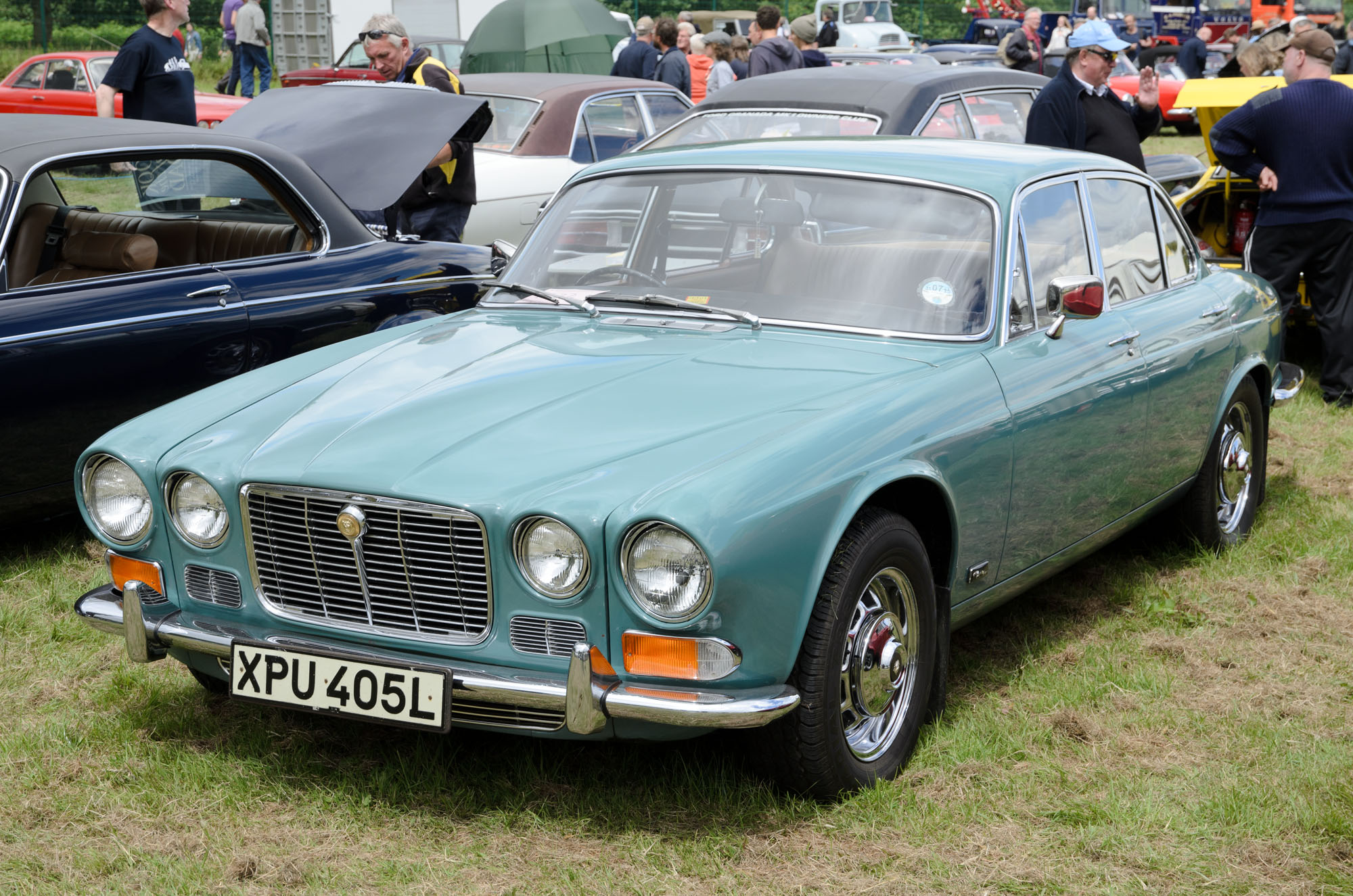 Trentham Gardens Classic Car Show 21/06/2015